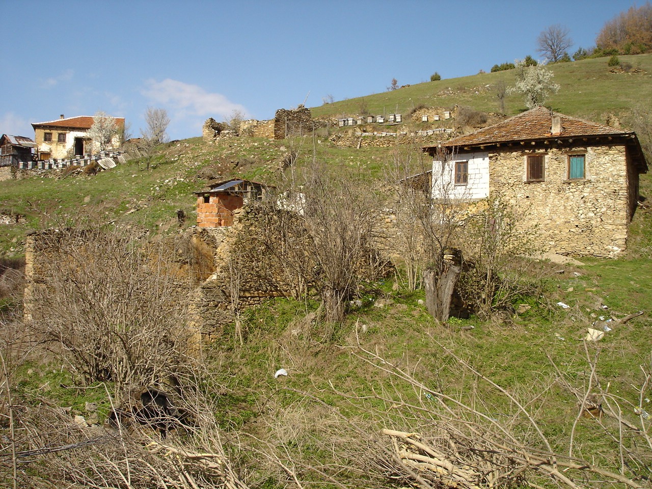 village of Živovo in Mariovo, Macedonia